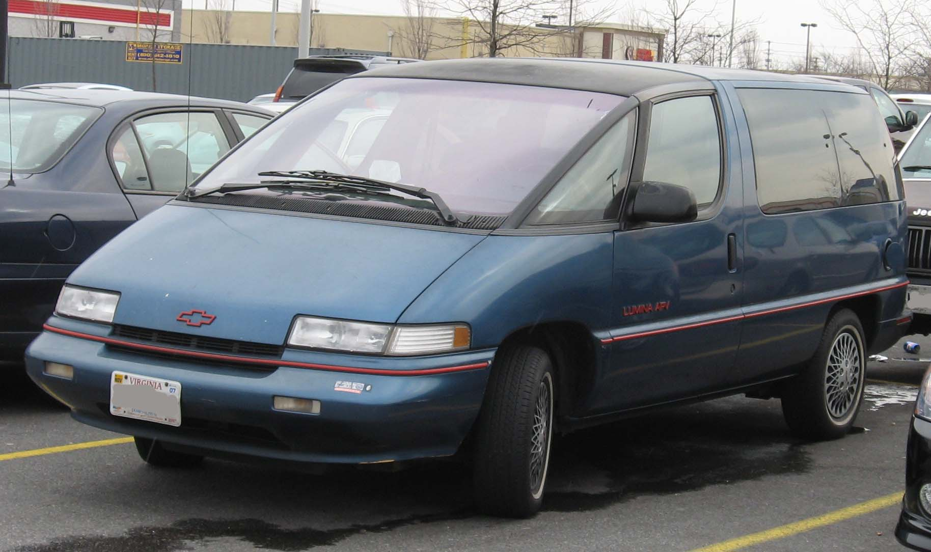 1990-1993 Chevrolet Lumina APV photographed in USA.